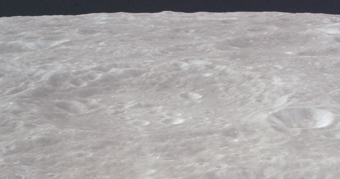 Oblique view of Schliemann crater, on the moon, facing north. Rotated and cropped in GIMP.